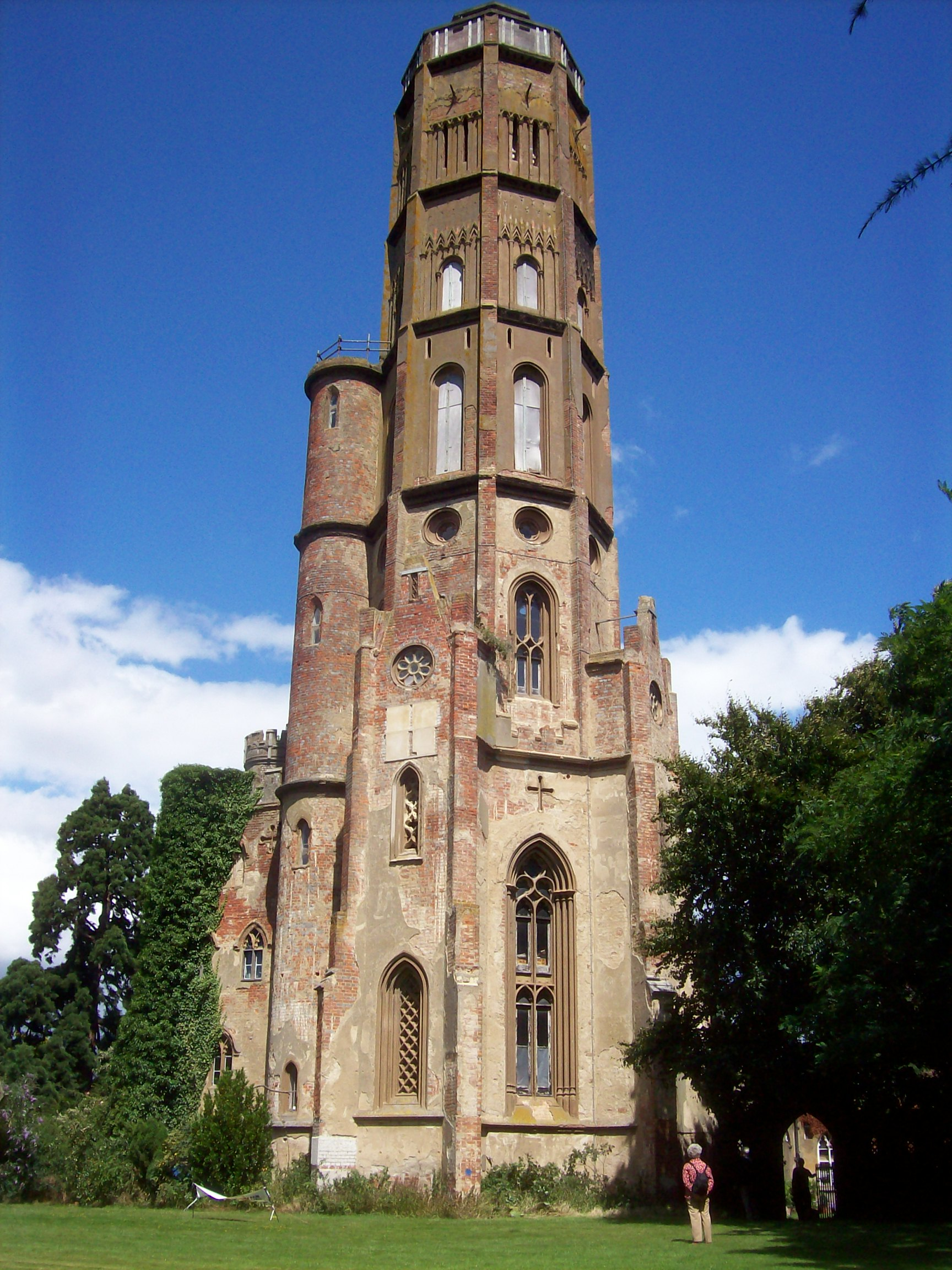 A close-up view of the tower of Hadlow Castle, Kent.